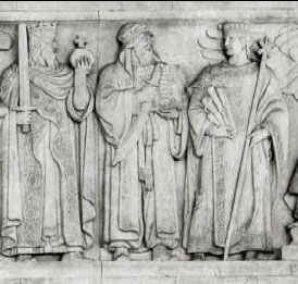 Frieze depicting Muhammad in the United States Supreme Court